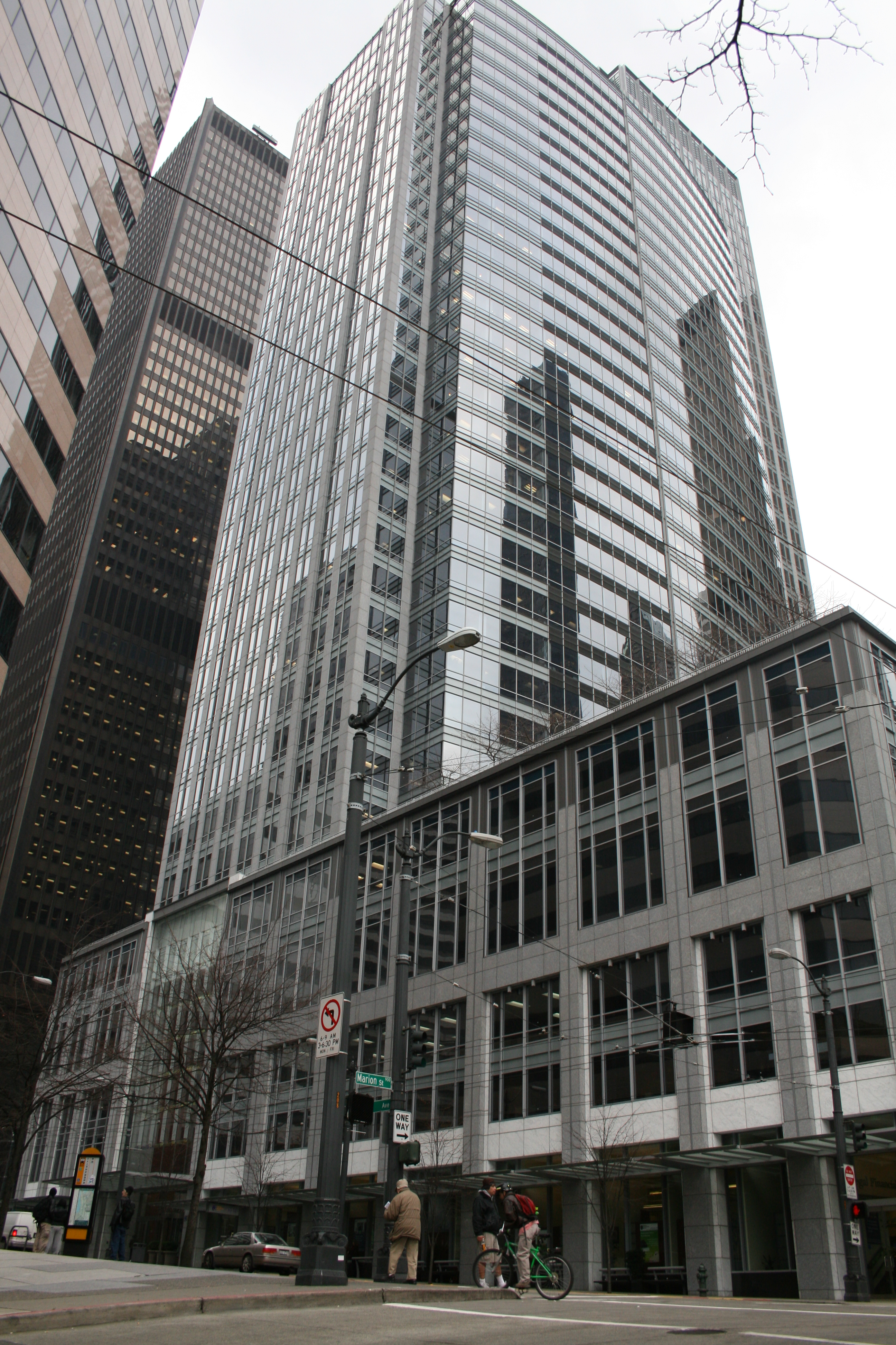 Fourth and Madison Building (IDX Building) from 3rd and Marion. In the upper left is the Wells Fargo Center, the black building in the center left background is 1001 Fourth Avenue Plaza, formerly the Seattle First Interstate Building.